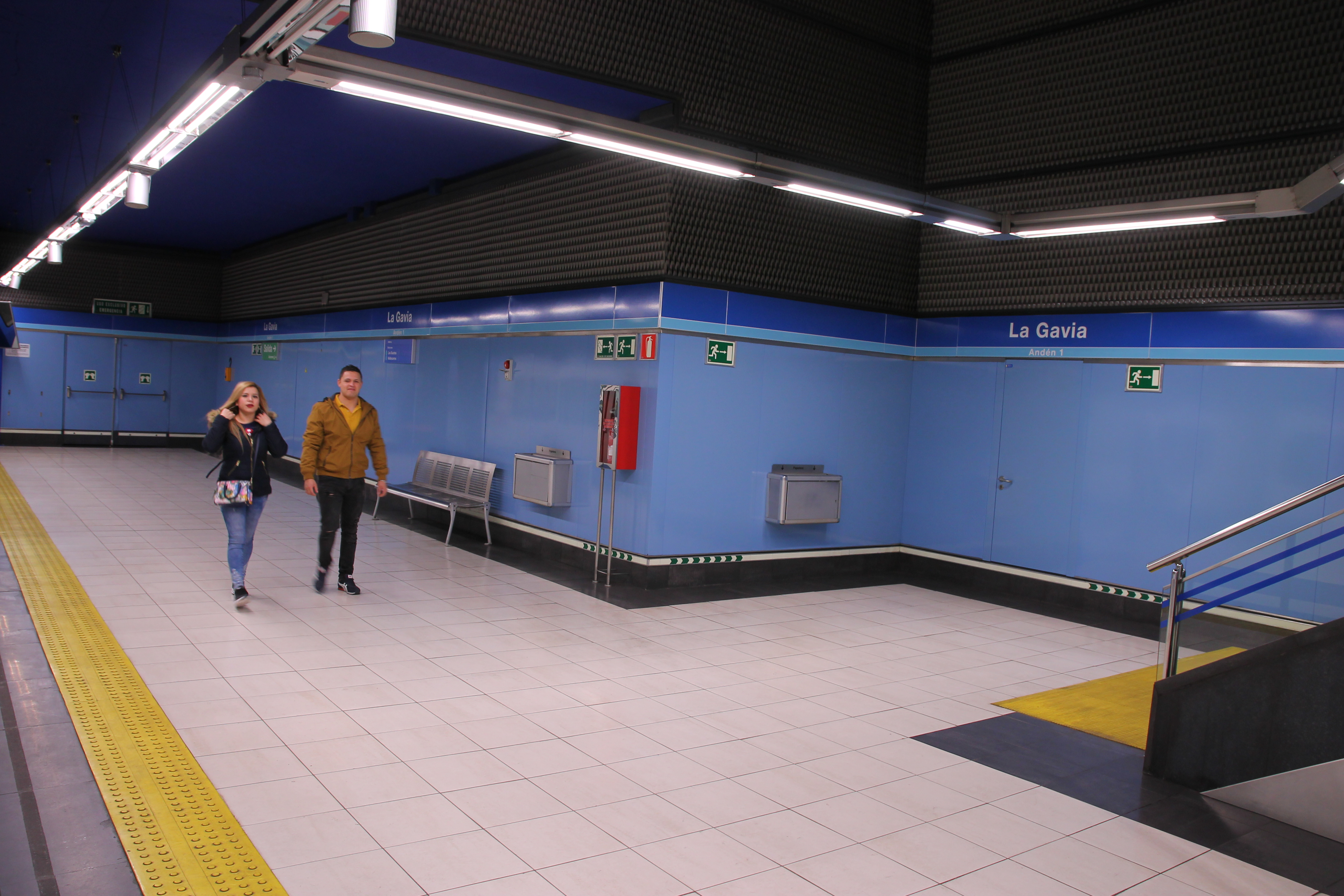 La Gavia station. Madrid Metro.